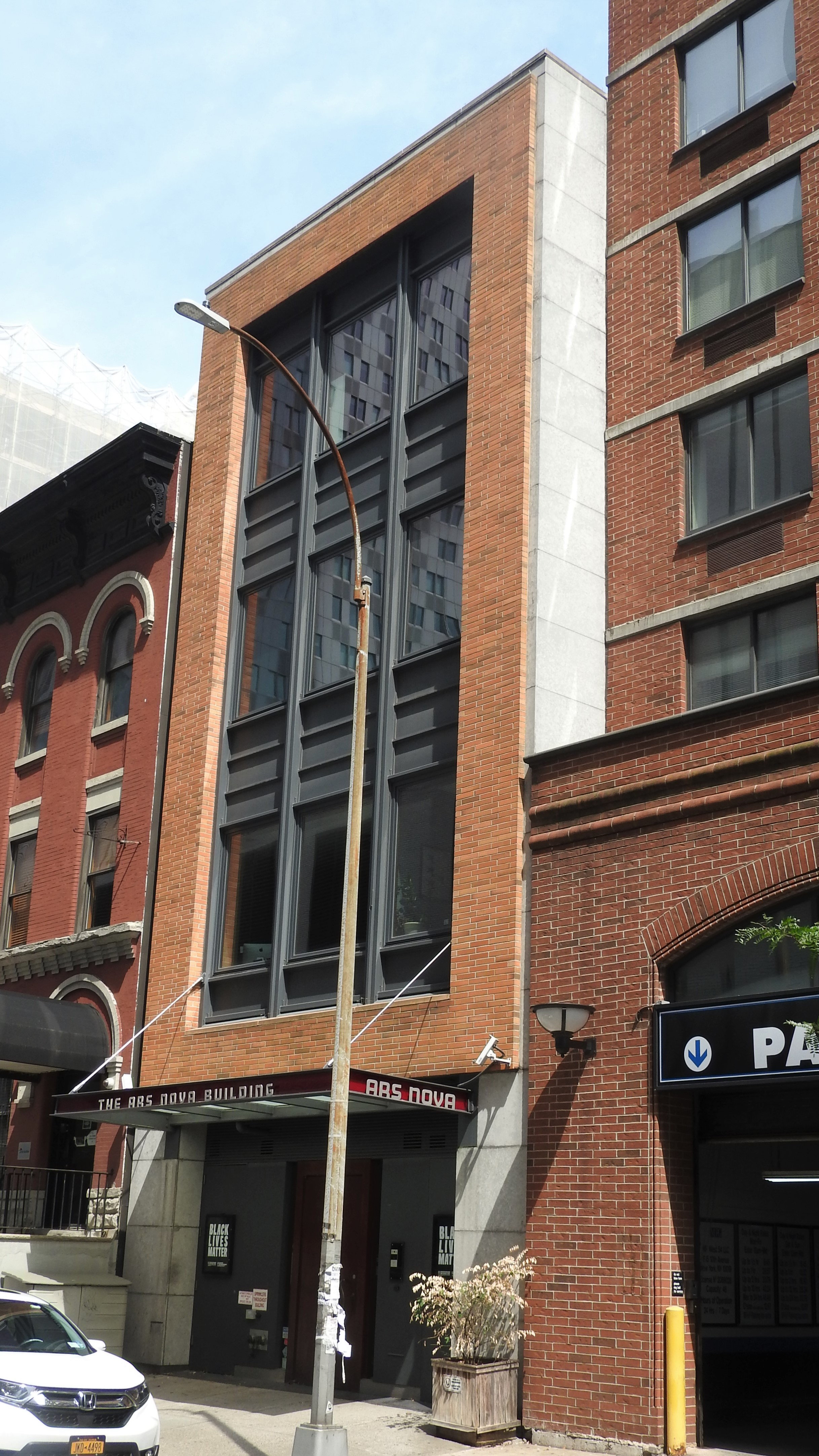 Looking north across 54th Street on a sunny midday